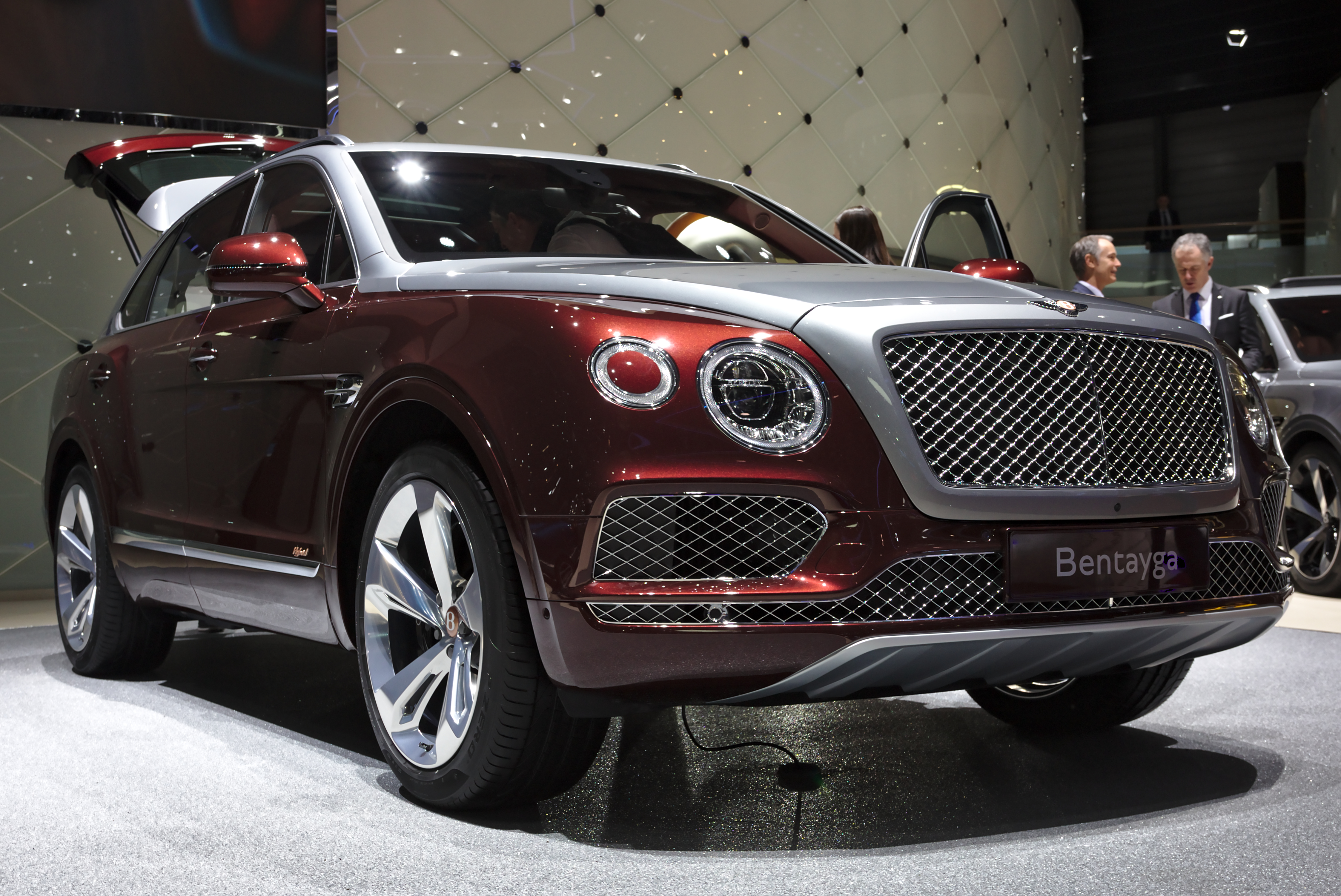 Bentley Bentayga PHEV at Geneva Motorshow 2018